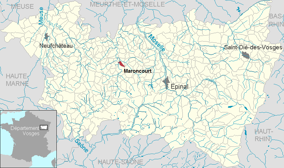 Maroncourt in the department of Vosges, Lorraine, France